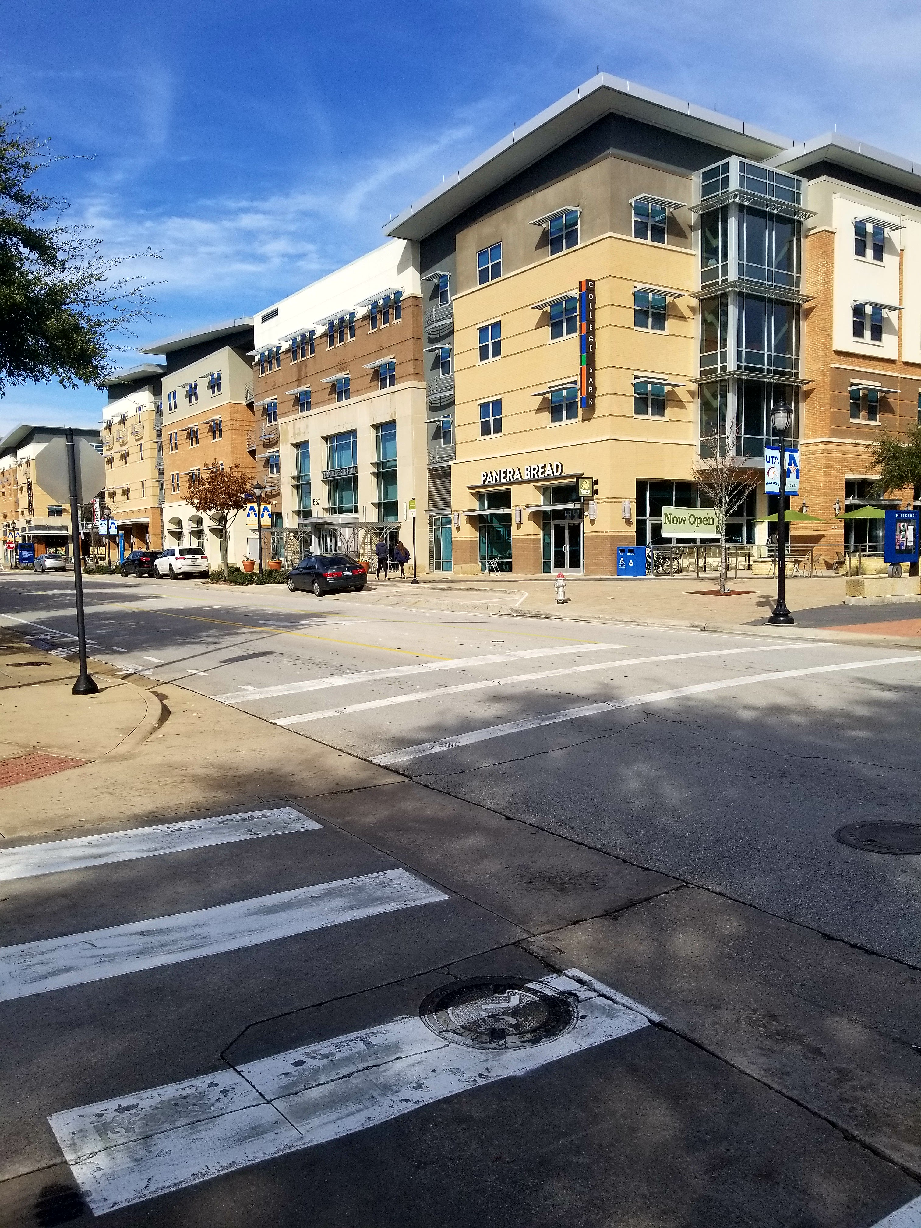 CPC Dist